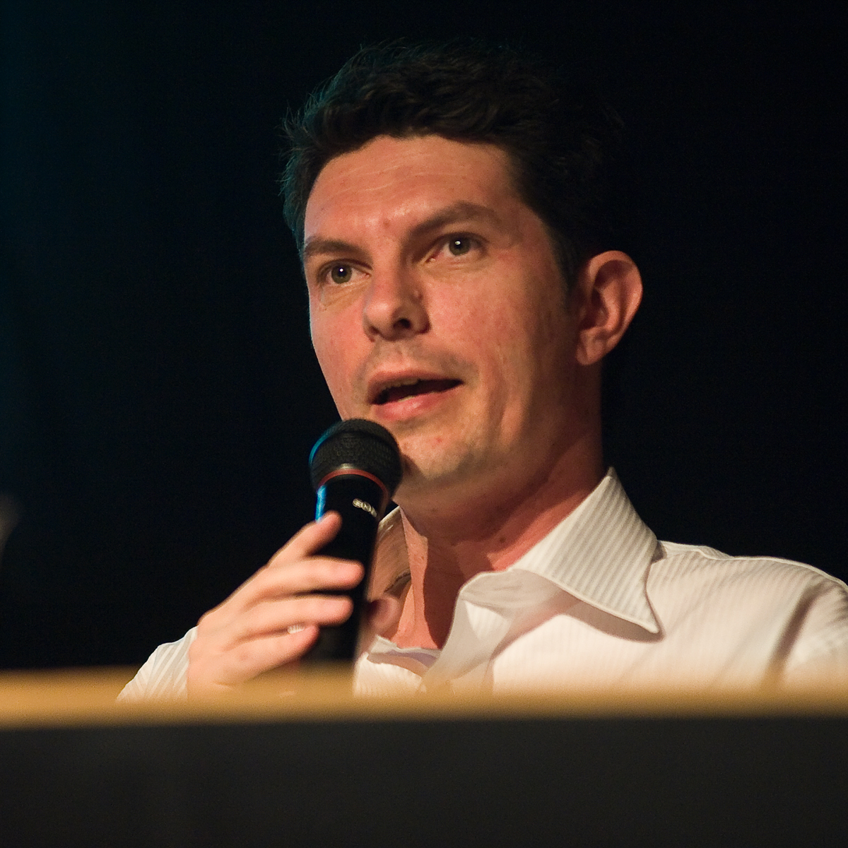 Scott Ludlum @ Glamwiki Canberra 2009